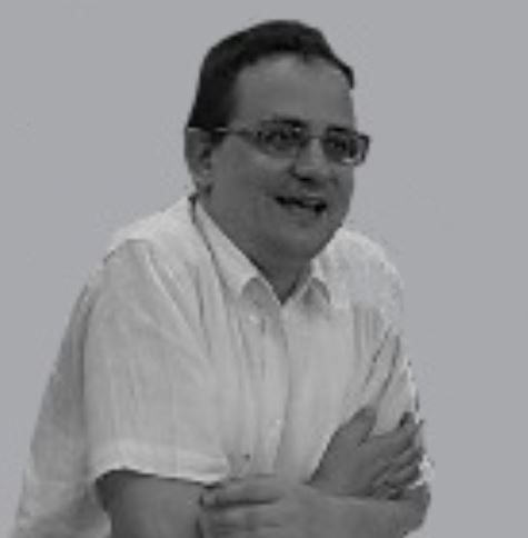 Giuseppe Tacconi (Verona 7 February 1966 - Negrar 16 January 2020), Salesian, was professor of Pedagogy and General Didactics at the Department of Human Sciences of the University of Verona